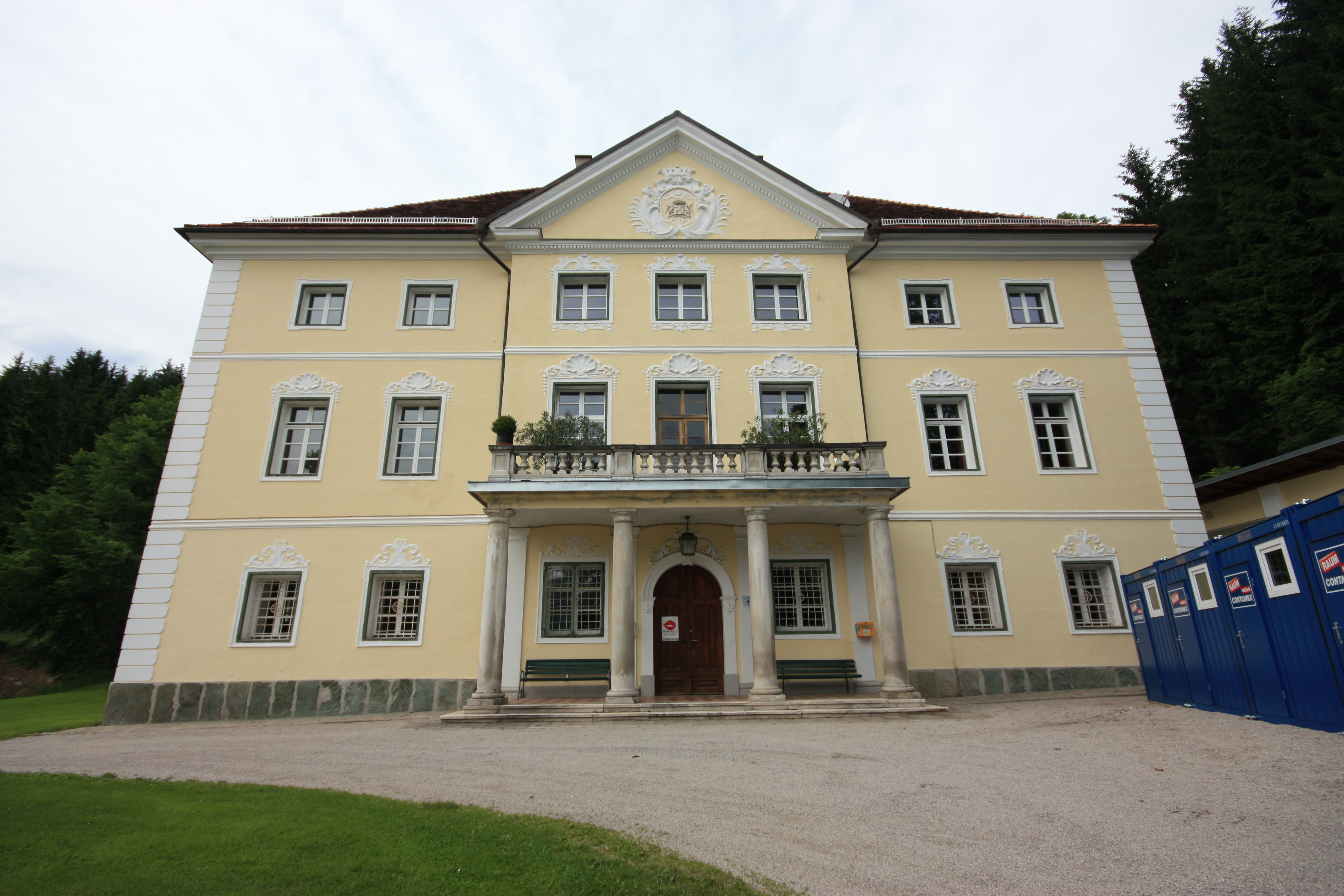 Töscheldorf castle, near Althofen, Carinthia